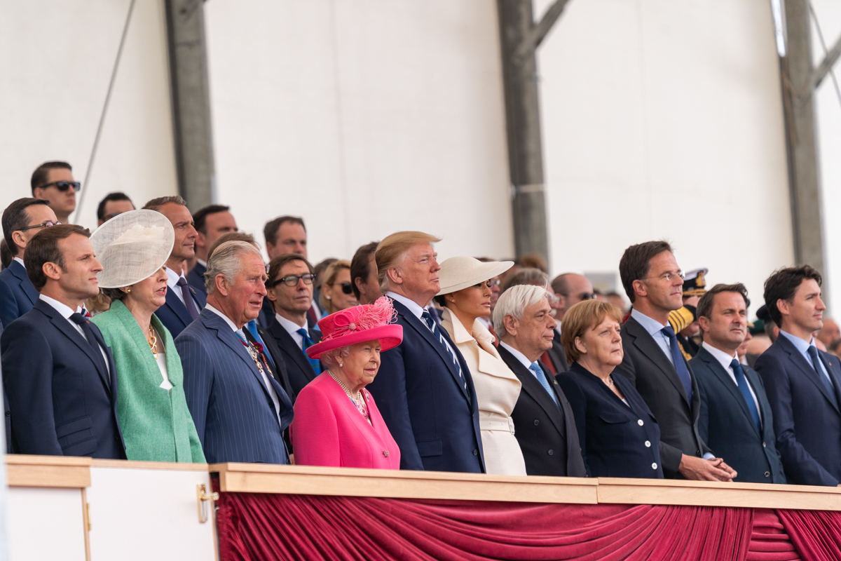 President Donald J. Trump and First Lady Melania Trump attend a D-Day National Commemorative Event with Her Majesty Queen Elizabeth II, the Prince of Wales, and other world leaders Wednesday, June 5, 2019, at the Southsea Common in Portsmouth, England. (Official White House Photo by Shealah Craighead)